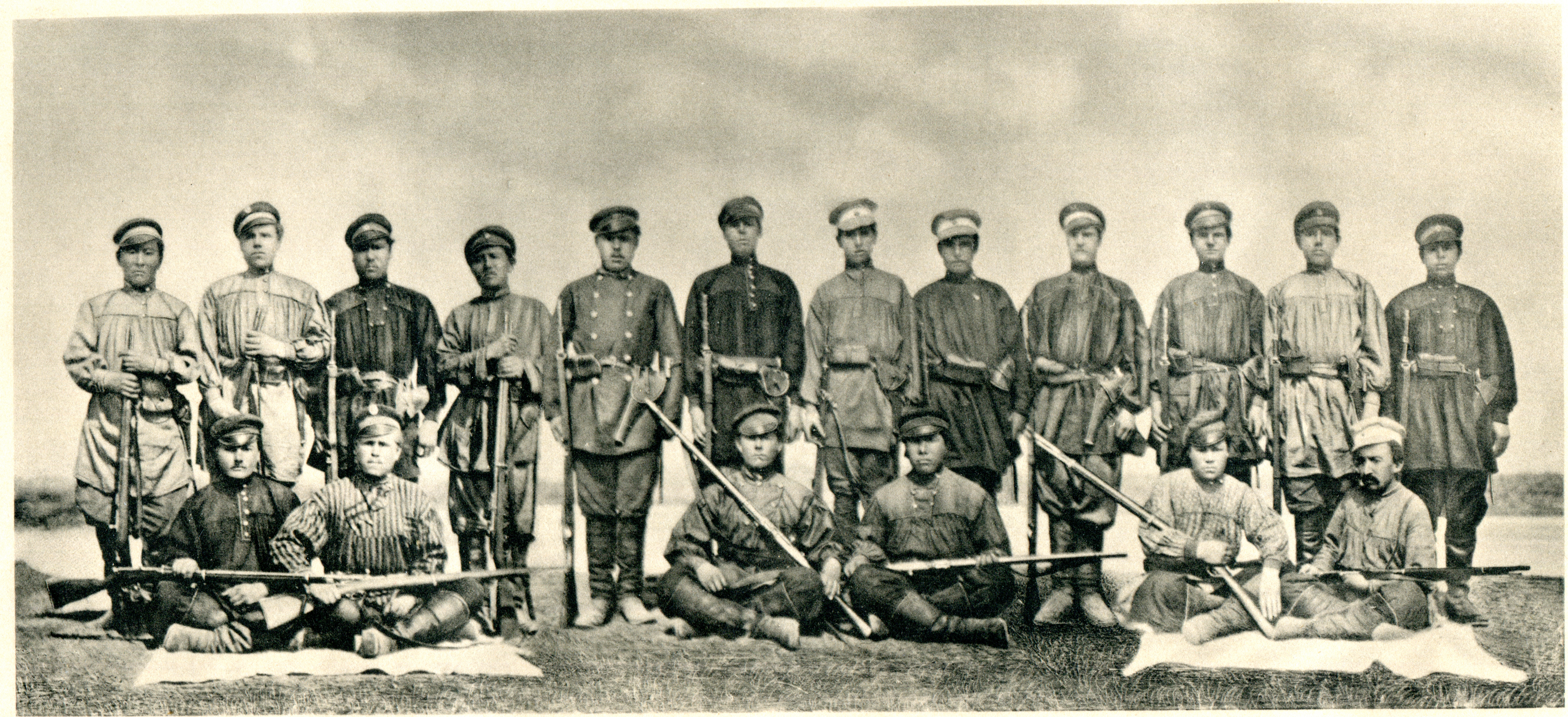 The guards of the Fourth Pzewalski's Expedition